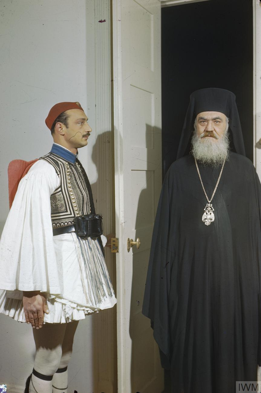 The Archbishop Regent Damaskinos of Greece, 15 February 1945 The Regent with an Evzone Guard at the Regency in Athens.